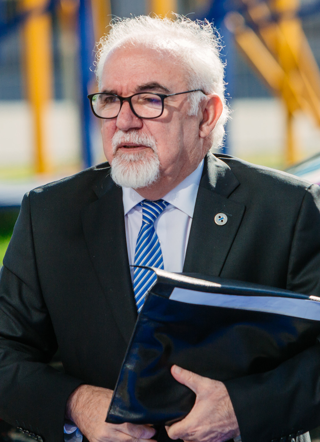 José António Vieira da Silva, Minister, Ministry of Labour, Solidarity and Social Security, Portugal Photo: Arno Mikkor (EU2017EE)